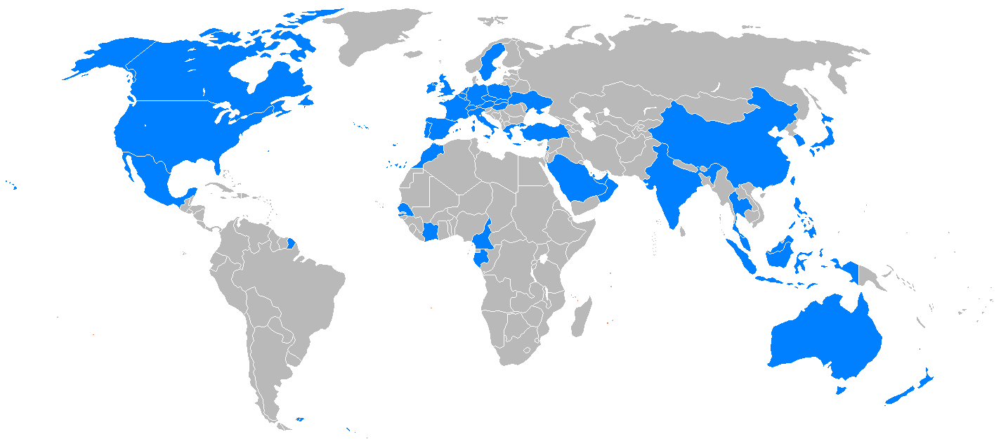 Axa world map. Based on File:Axa group global locations.JPG with a better quality.